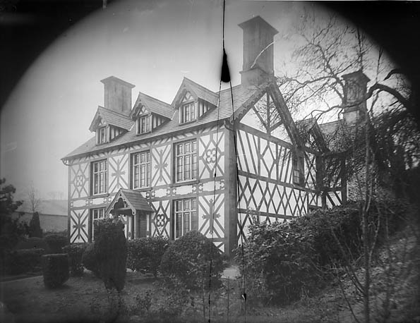 1 negative : glass, dry plate, b&w ; 16.5 x 21.5 cm.